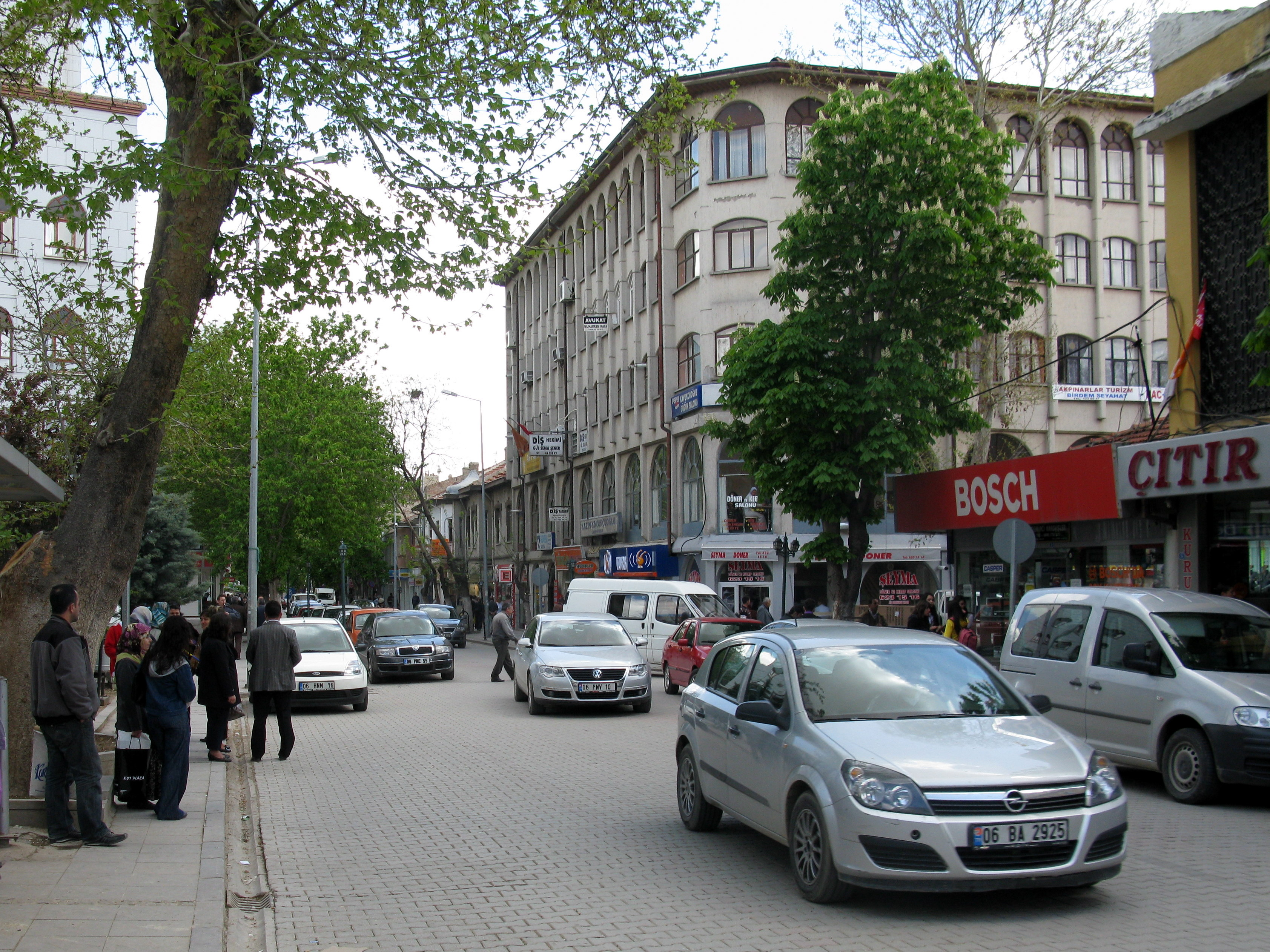 Ankara Caddesi at the main bus stop in Polatlı, Province of Ankara in Turkey